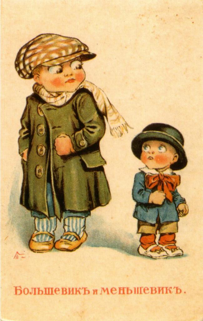 Postcard by Vladimir Taburin